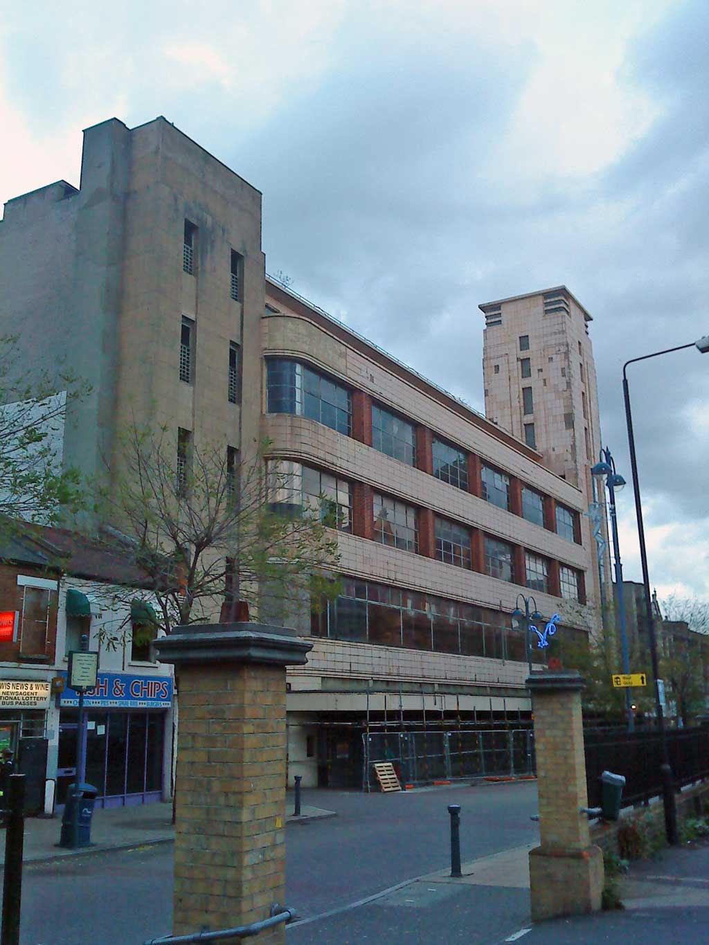 Photograph of the doomed art deco Co-Op building on Powis Street, Woolwich. Taken by me on a Sony Ericsson W595 phone.